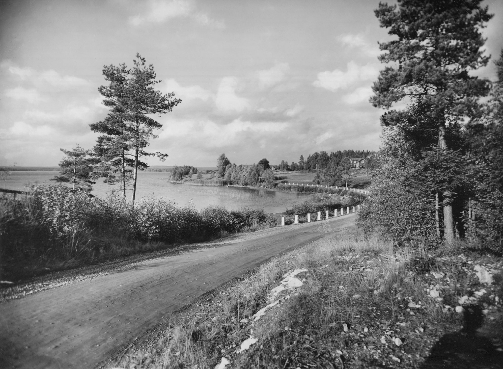 Viker at the lake Vikern outside Nora, Sweden